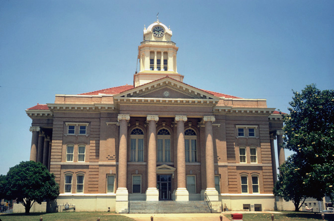 Upson County Courthouse (Built 1908), Thomaston, Georgia